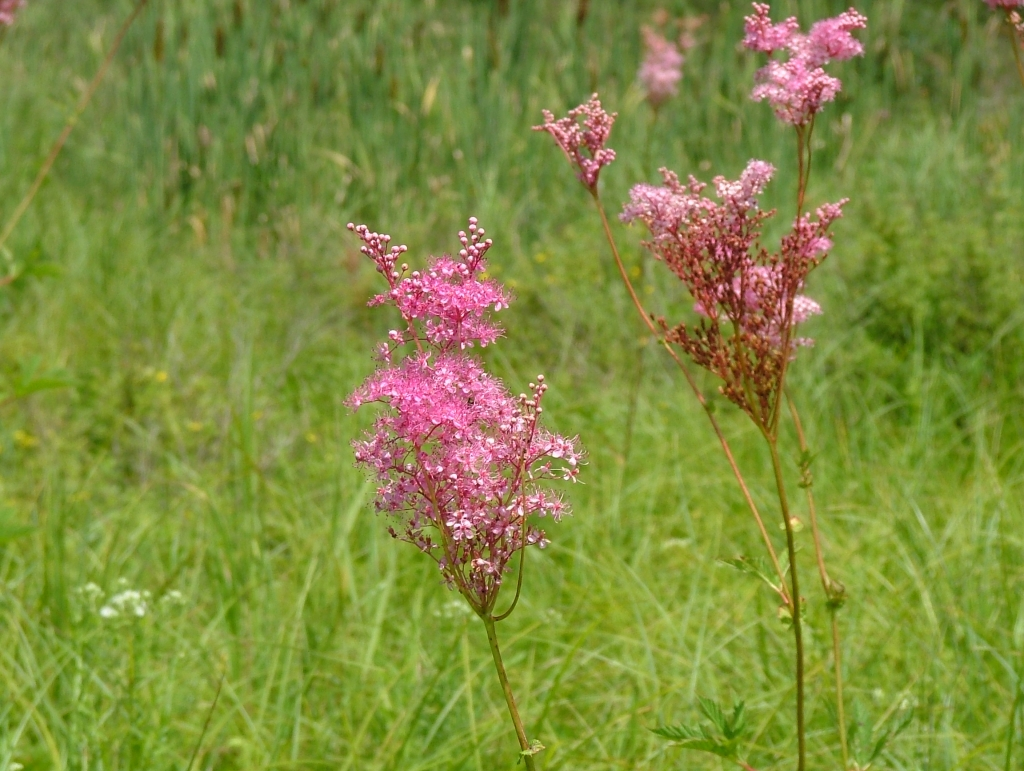 Queen of the Prairie (Filipendula rubra)